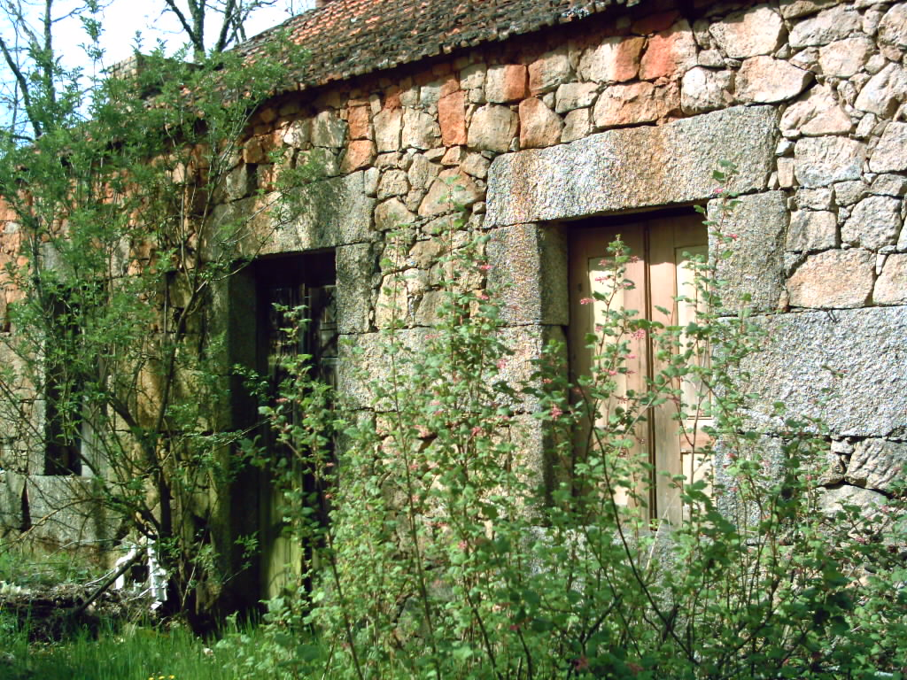 House at Pega, Guarda, Portugal.